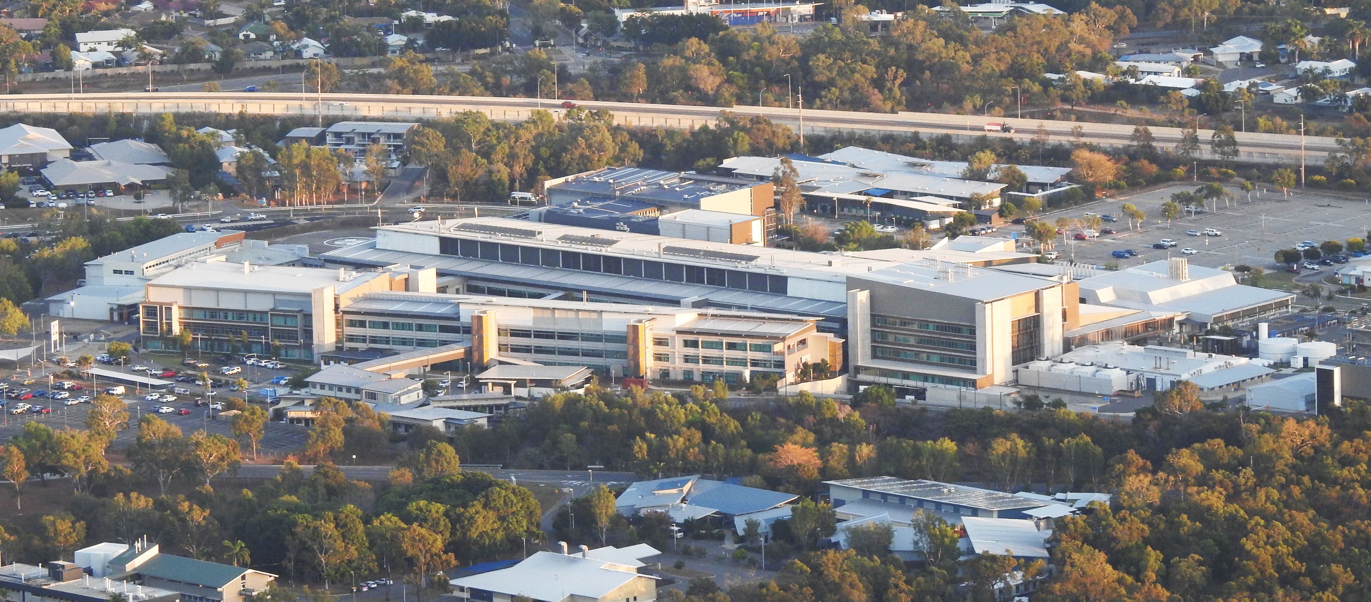 Townsville Hospital. Photo taken from Mount Stuart.